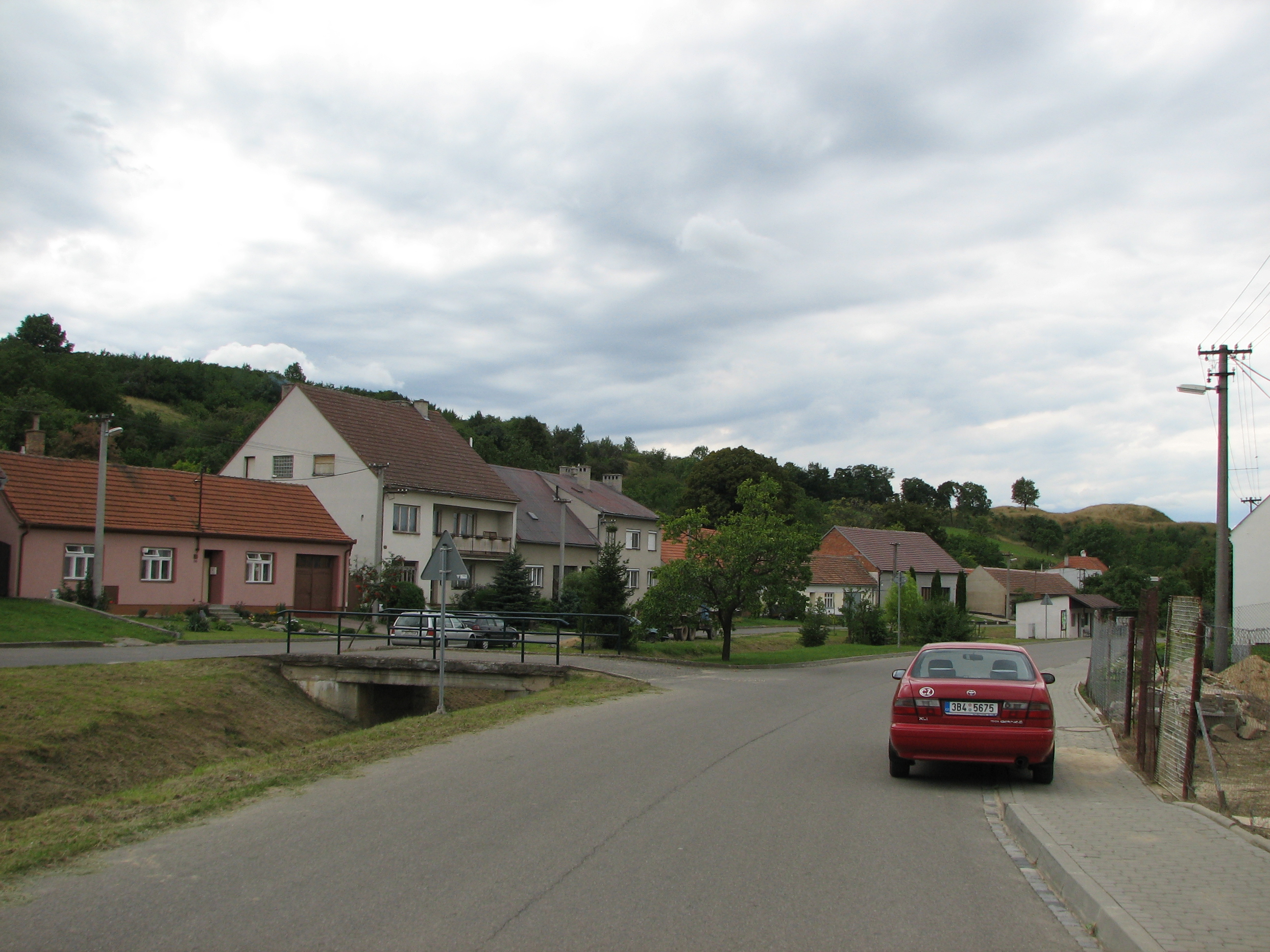 Nechvalín - village centre